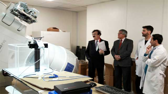 Assessing visit to the premises of the Molecular & Nuclear Medicine Centre (CEMENER), built by the Entre Ríos Province´s Institute of Social Assitence (IOSPER), the Argentine Republic Comission of Atomic Energy (CNEA), and the Government of the Province of Entre Ríos. From right to left: the General Manager licenciado Valentín Ugarte, physicist-physician Federico Bregains, the President of IOSPER public accountant Isaías Fernando Cañete, and scientist Prof. Dr. Mario Crocco